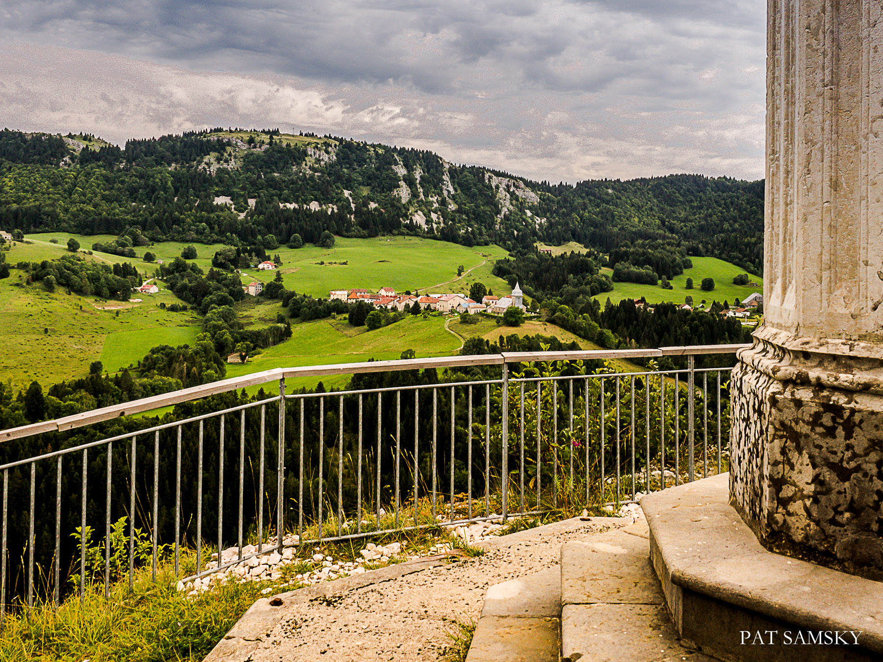 Les Bouchoux